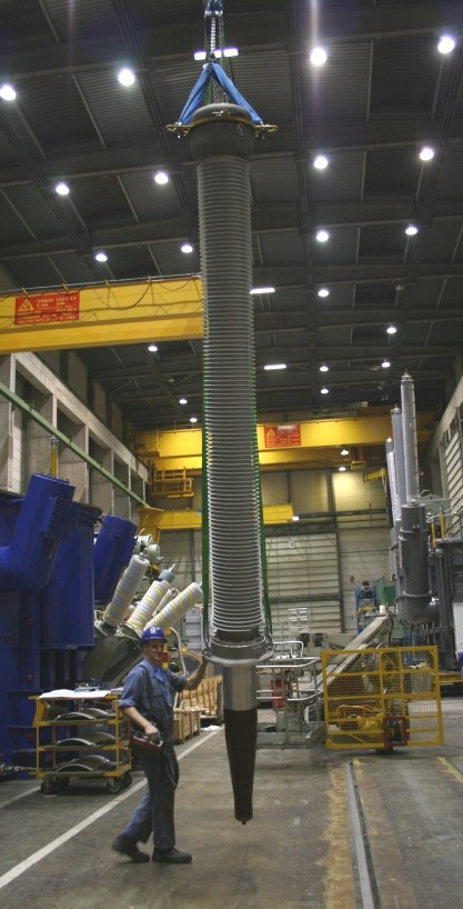 A composite high voltage bushing for 420 kV, UBIL 1550 kV and 1600 amperes.